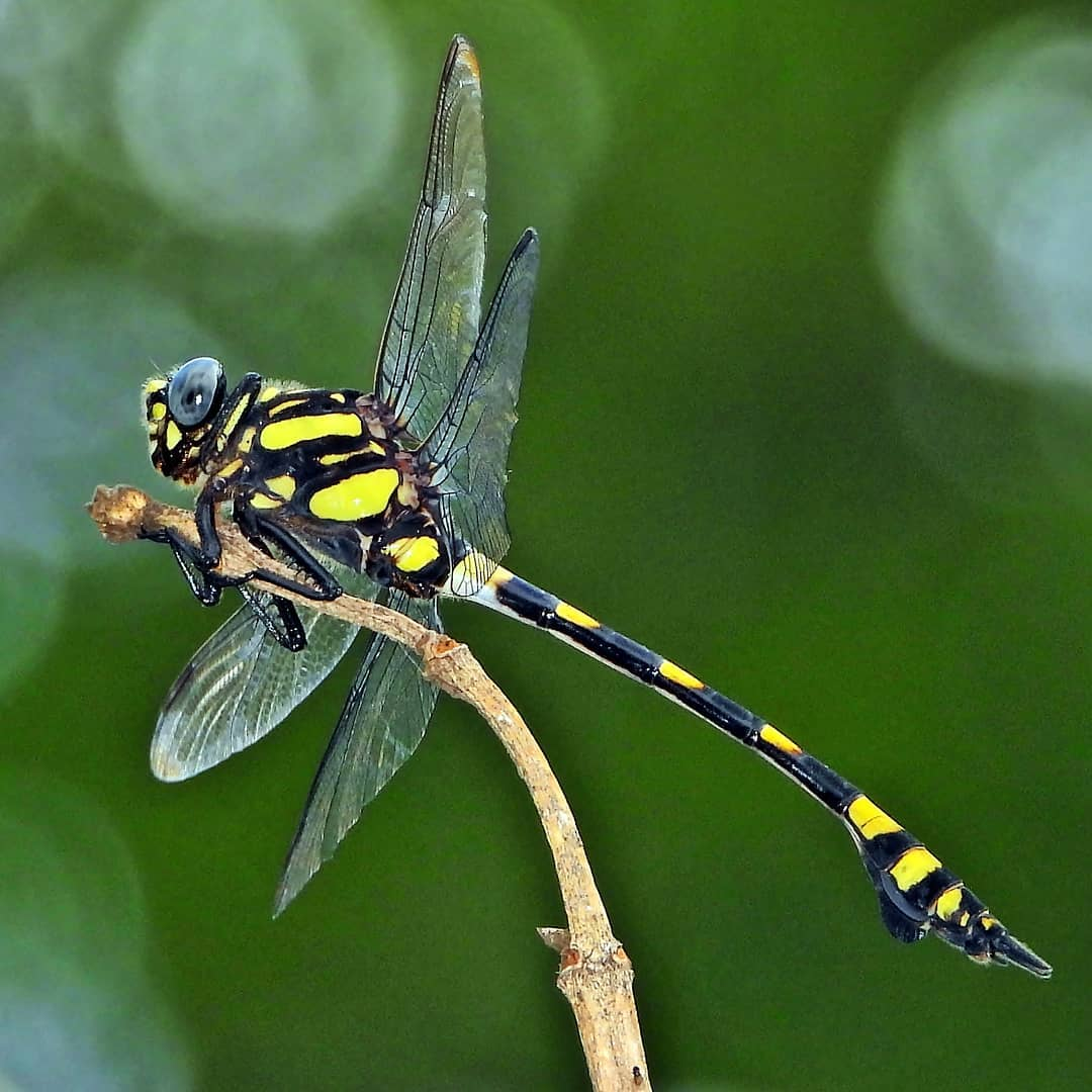 Common Clubtail Dragonfly